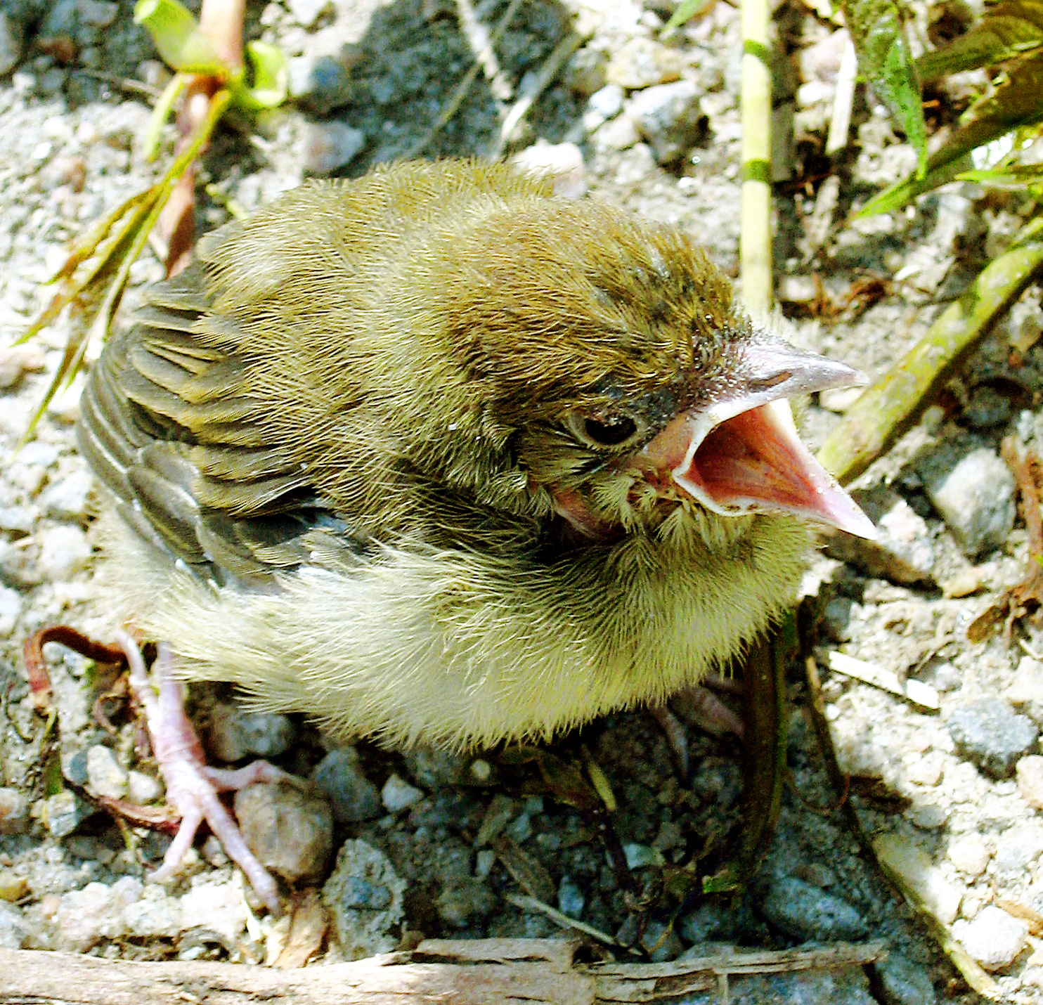 Young bird. Kharkiv, Ukraine, june 2010.